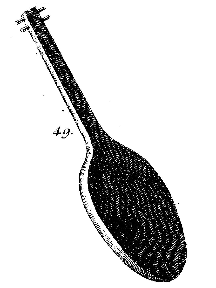 Illustration of a ‘dichord’ called instrument in: Johann Nikolaus Forkel’s Allgemeine Geschichte der Musik I, Schwickertscher Verlag, Leipzig 1788, Tab. V fig. 49 „Ein egyptisches Instrument, welches Burney für eine Art von Colascione, oder für ein Dichord hält.“